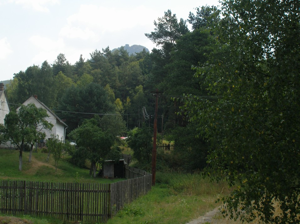 Srní Potok, Czechia